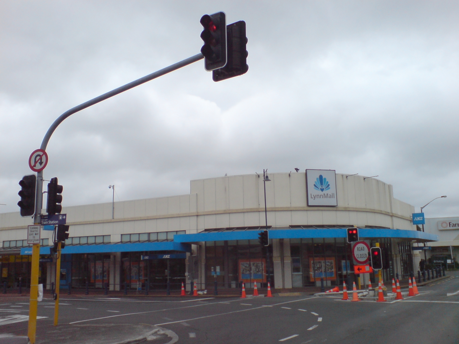 The railside entrance of the LynnMall, New Lynn, Waitakere City, New Zealand. Looking northeast.